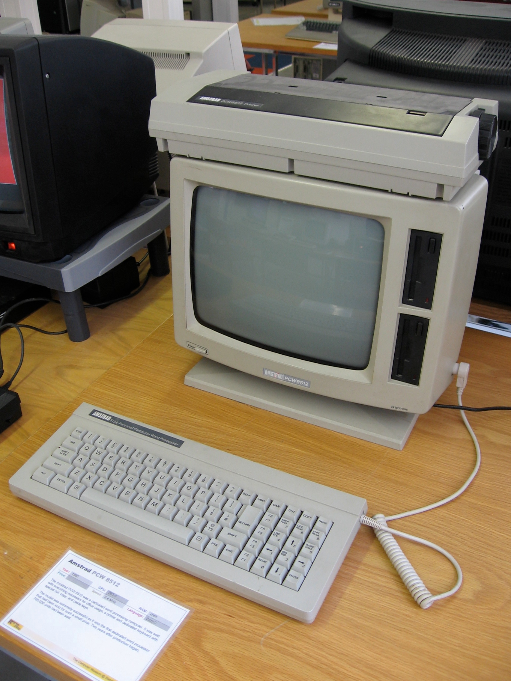 Amstrad PCW 8512 at National Museum of Computing, Bletchley Park, UK.